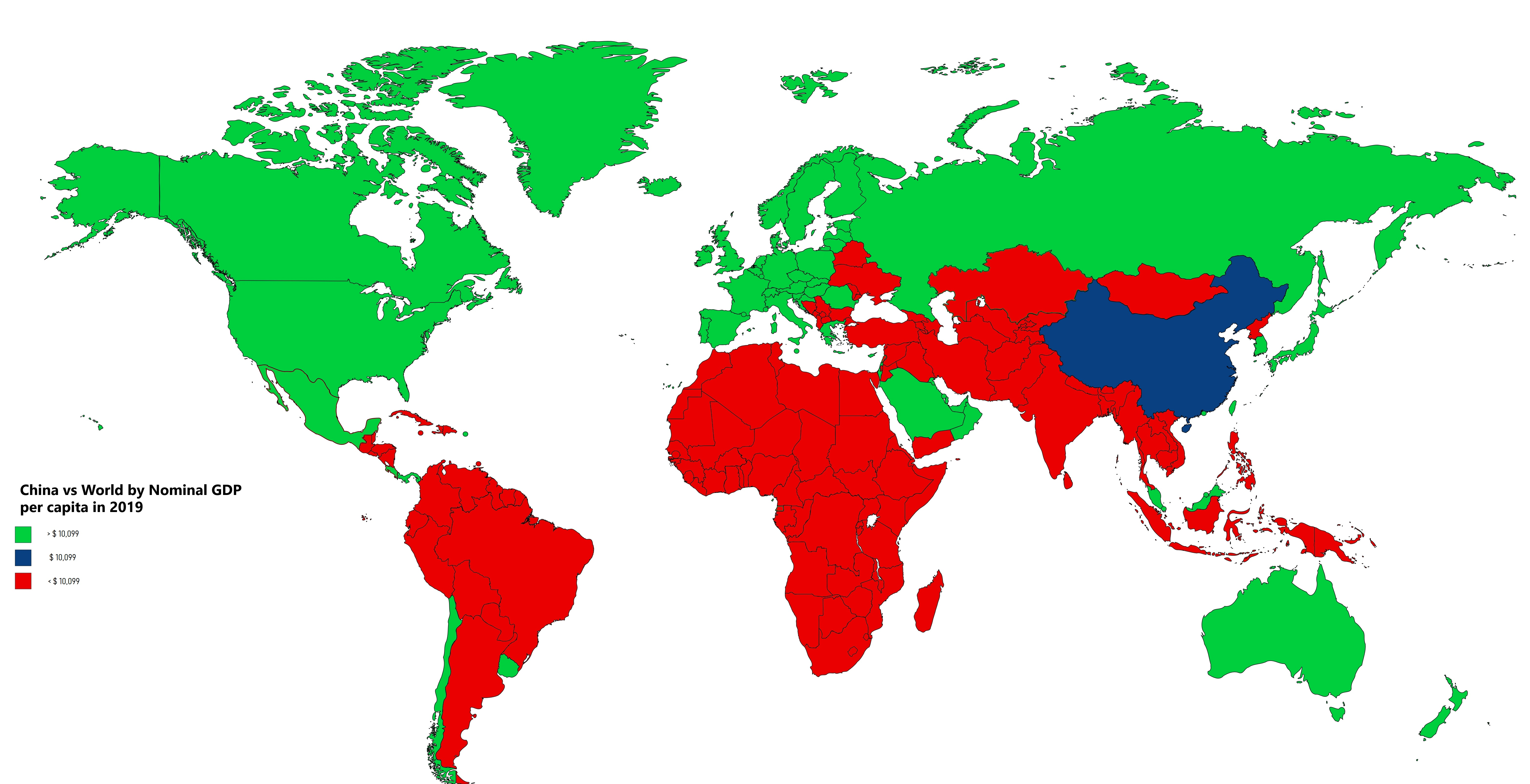 China vs World by Nominal GDP per capita in 2019